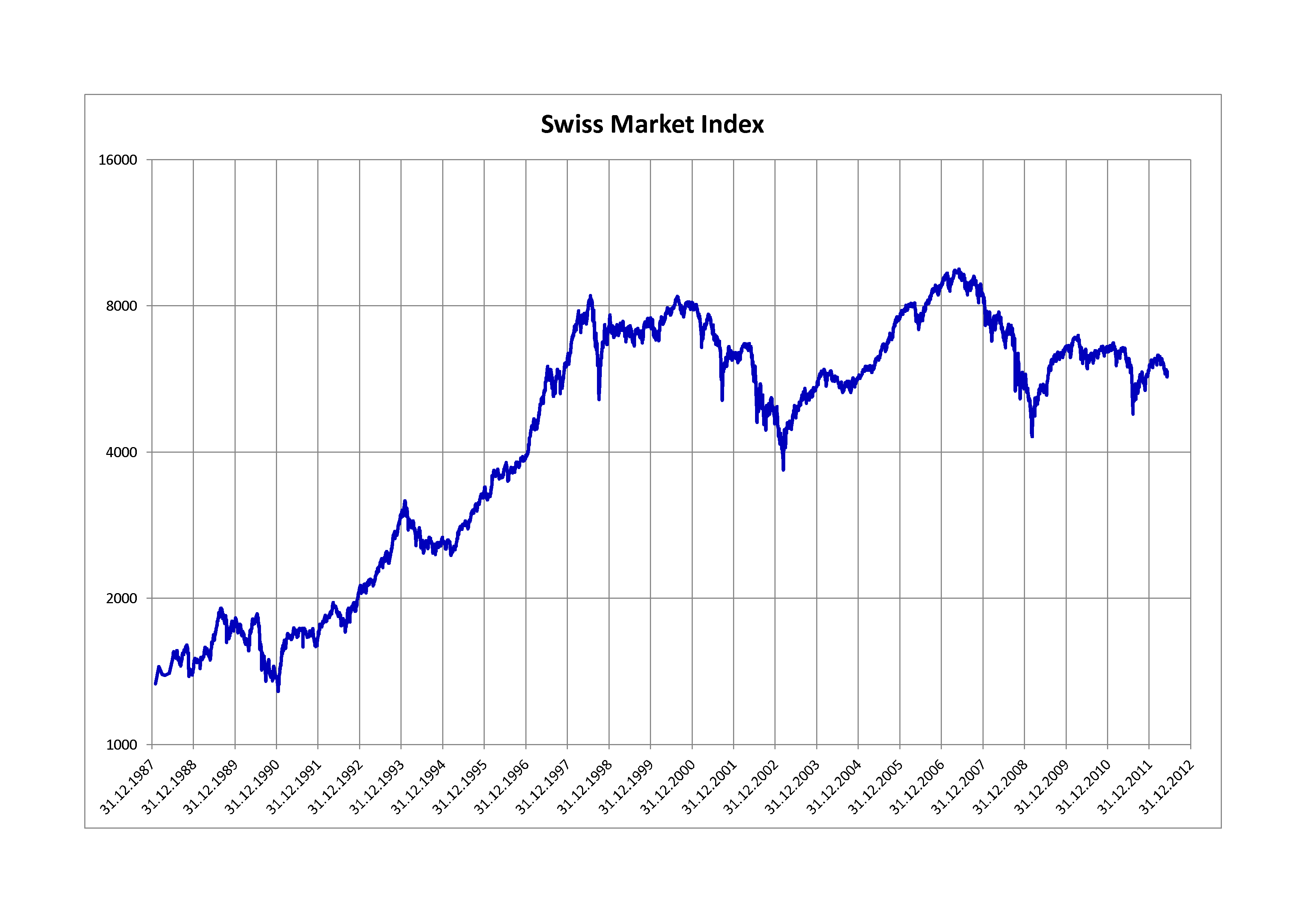 Swiss Market Index from January 1988 to June 2012 (daily closings)